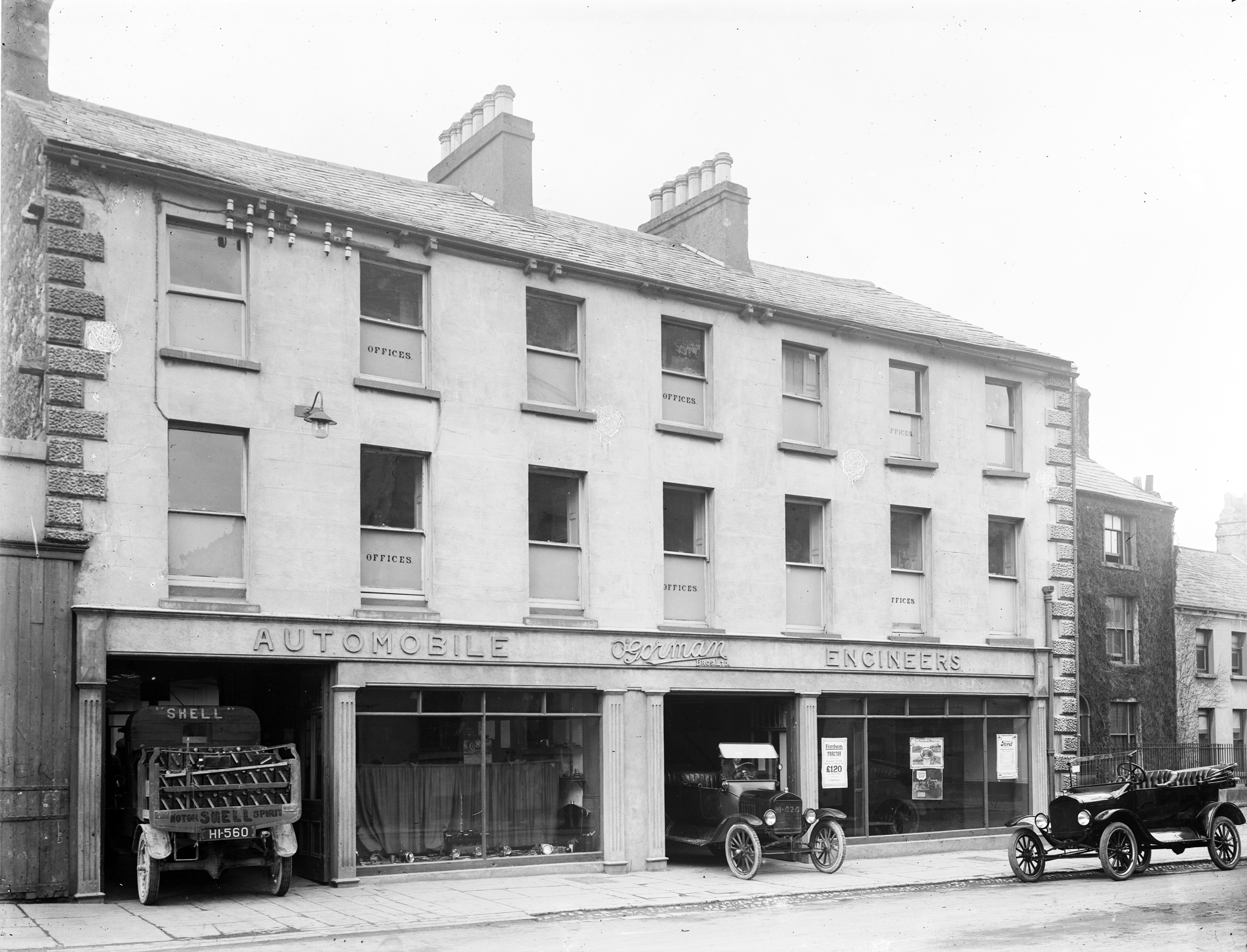 We know from a lot of work done here previously, that this was taken in Clonmel. It was requested by Desktop 123 whose specialist subject is definitely the O'Gorman's. (Always happy to take requests!) Date: Saturday, 15 April 1922 NLI Ref.: P_WP_3003